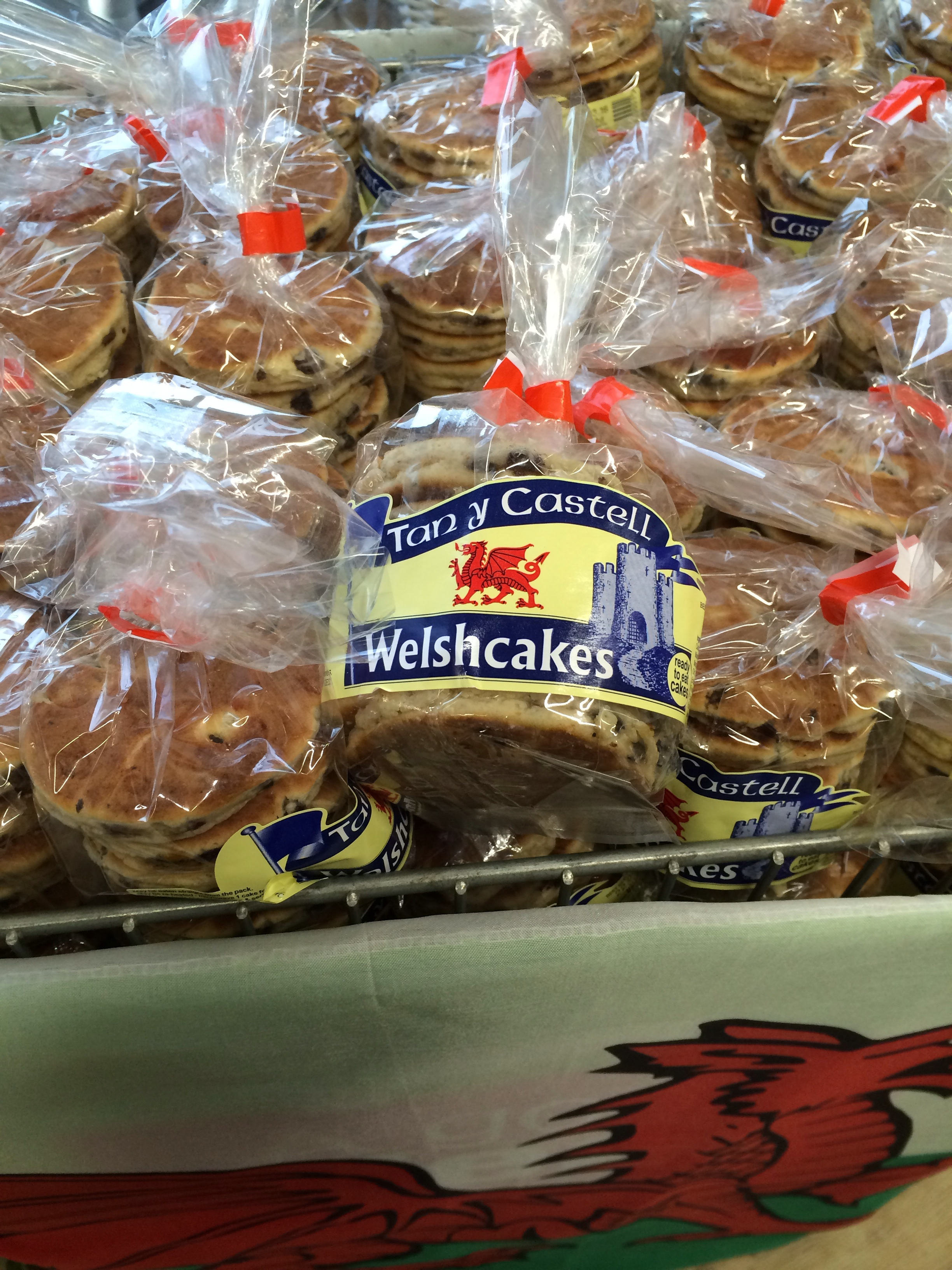 Welsh cakes produced by Tan y Castell for sale in a supermarket